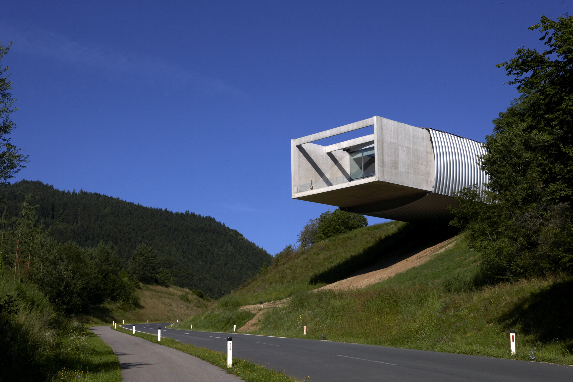 museum liaunig, neuhaus, austria